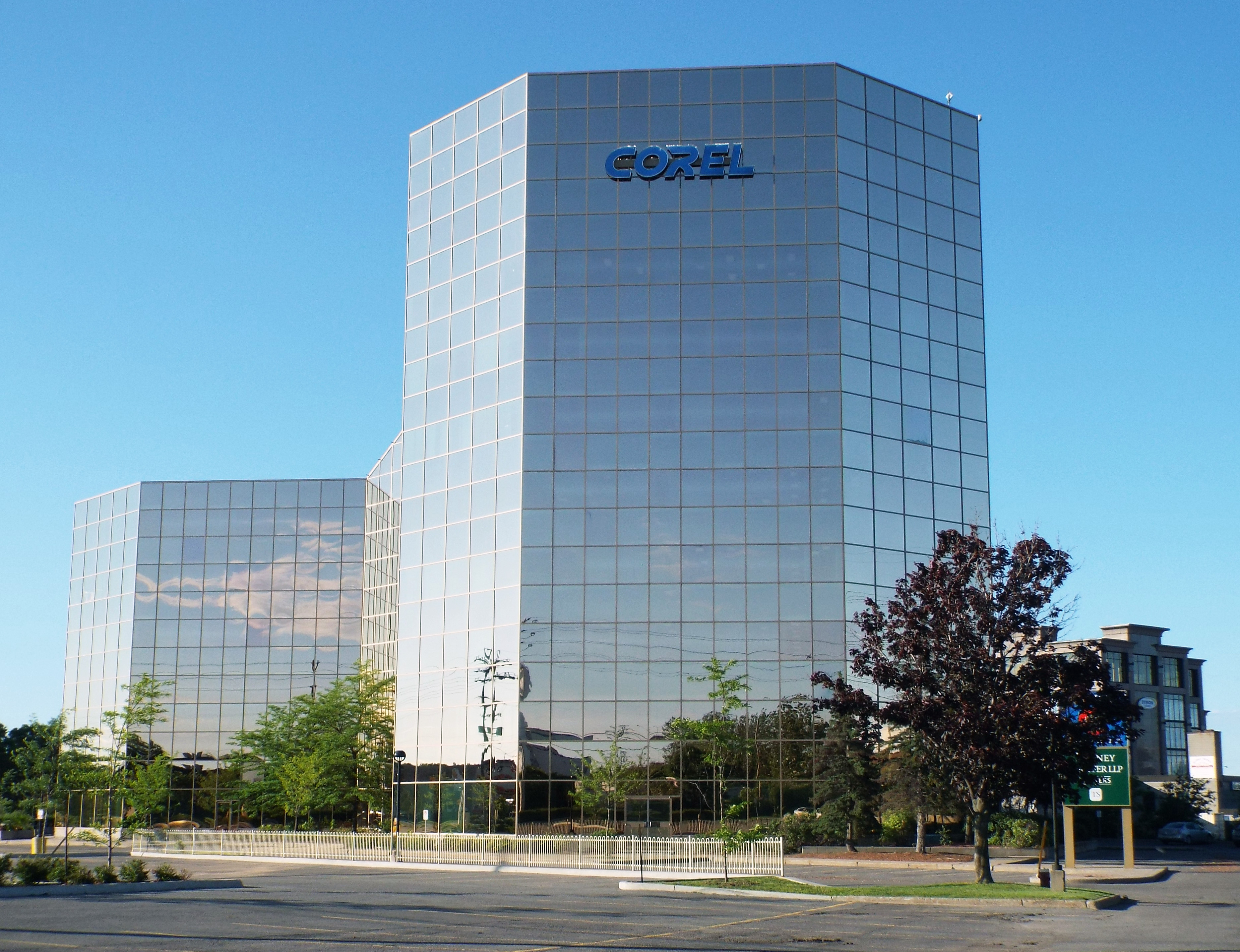 Corel Corporation headquarters in Ottawa, Ontario. Photographed by user Coolcaesar on July 4, 2014.